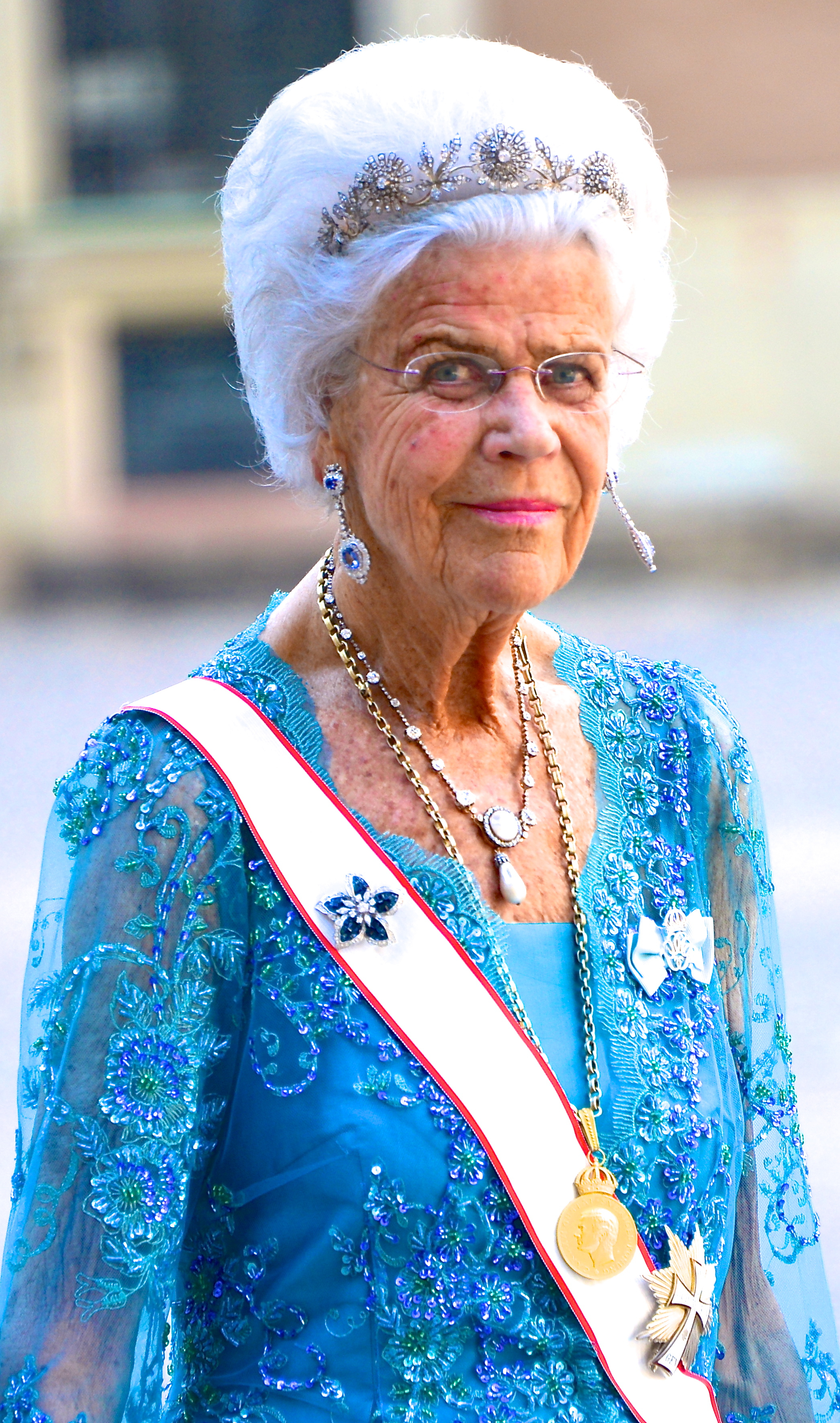 Alice Trolle-Wachtmeister on the way to the castle church at the Royal Palace in Stockholm before the wedding between Princess Madeleine and Christopher O'Neill June 8, 2013.